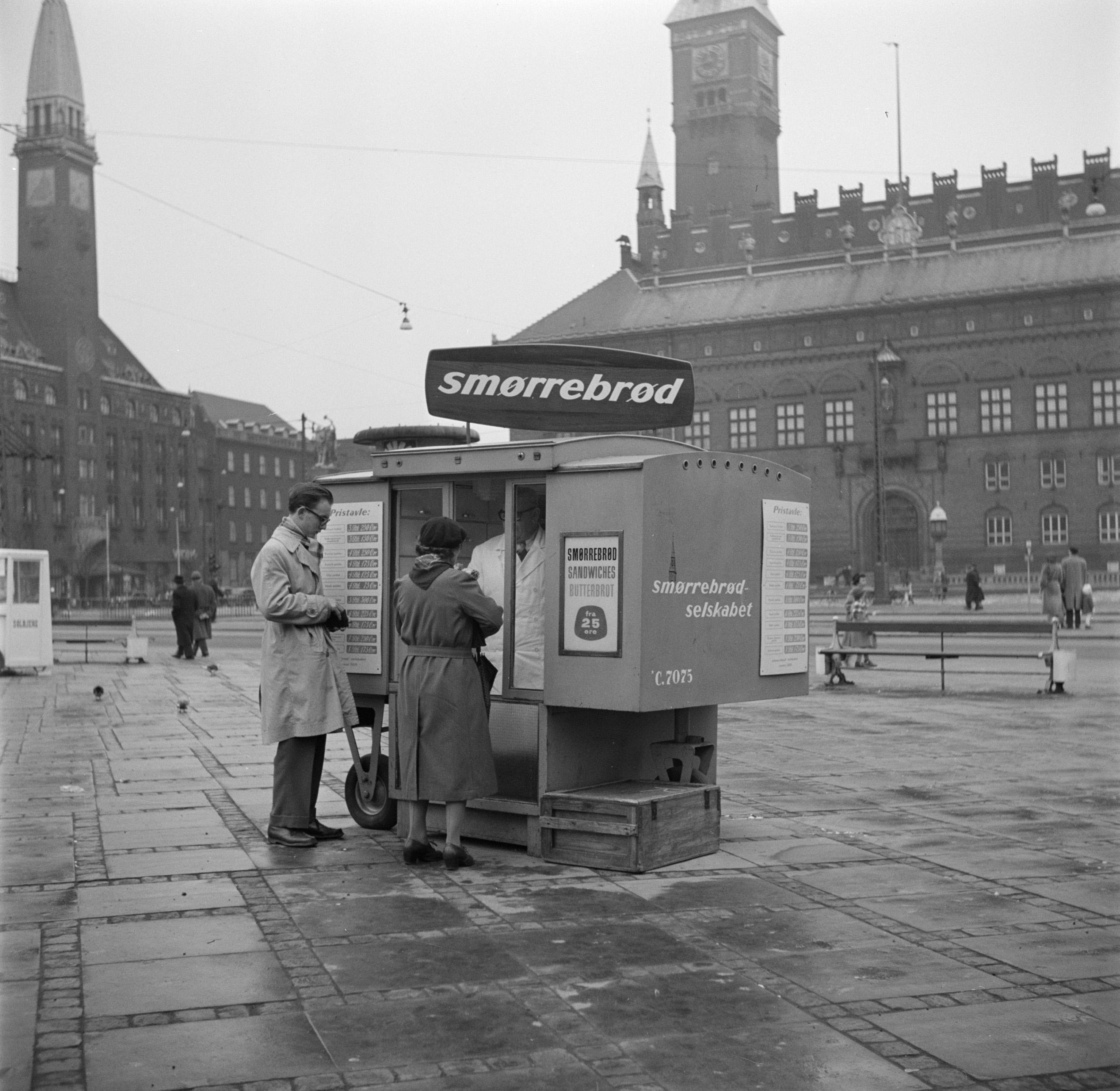 People at a kiosk where smørrebrød is sold with in the background, left to right, the palace hotel and the town hall of Copenhagen